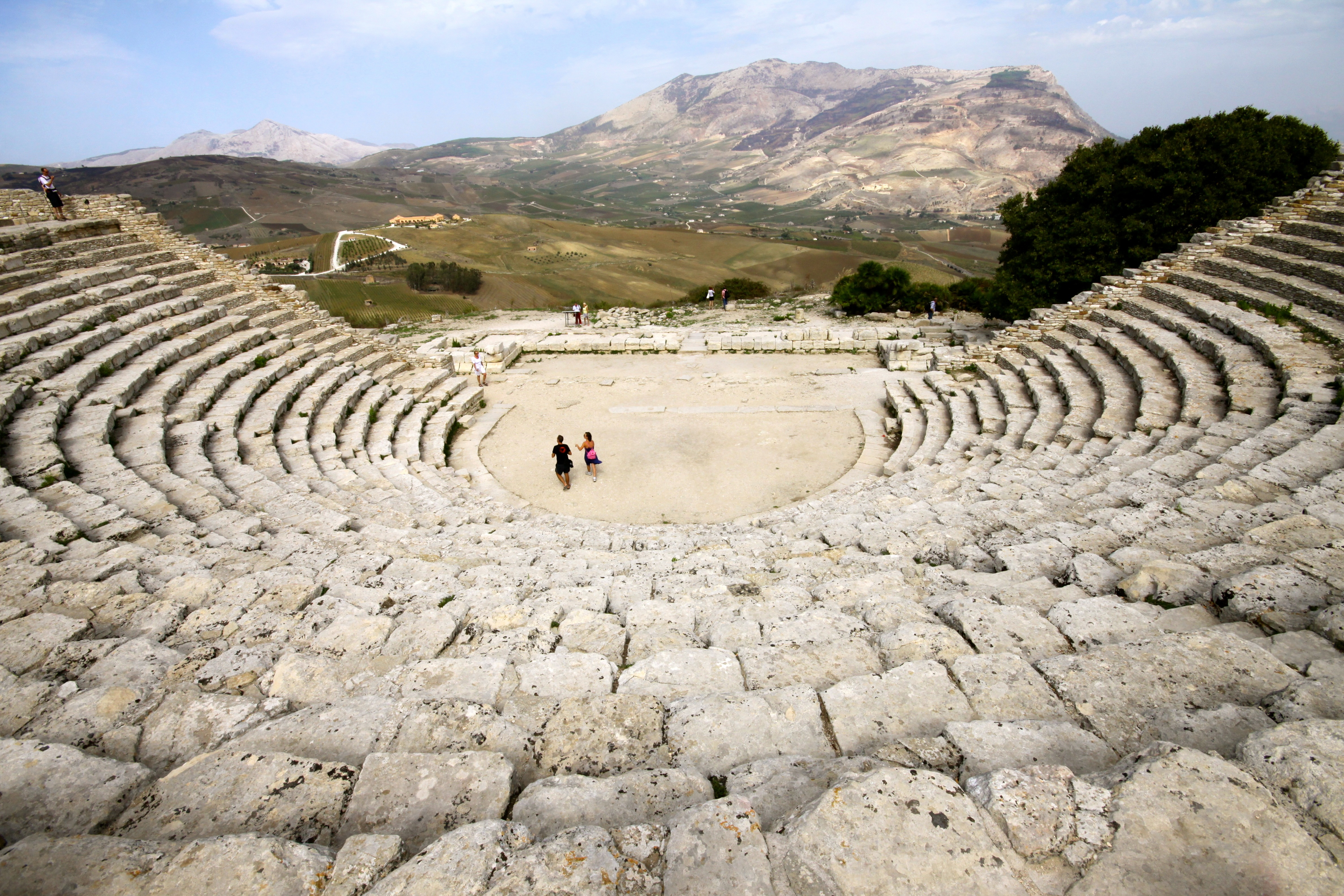 Ancient Greek theatre (Segesta)